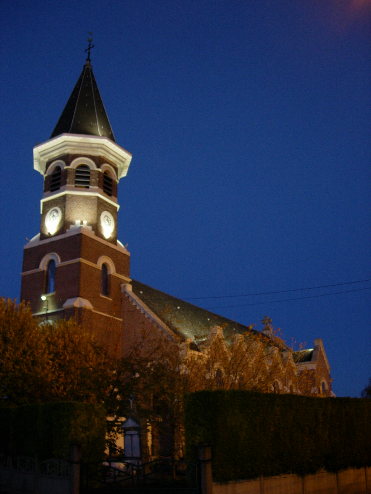 Saint-Martin Church, by night